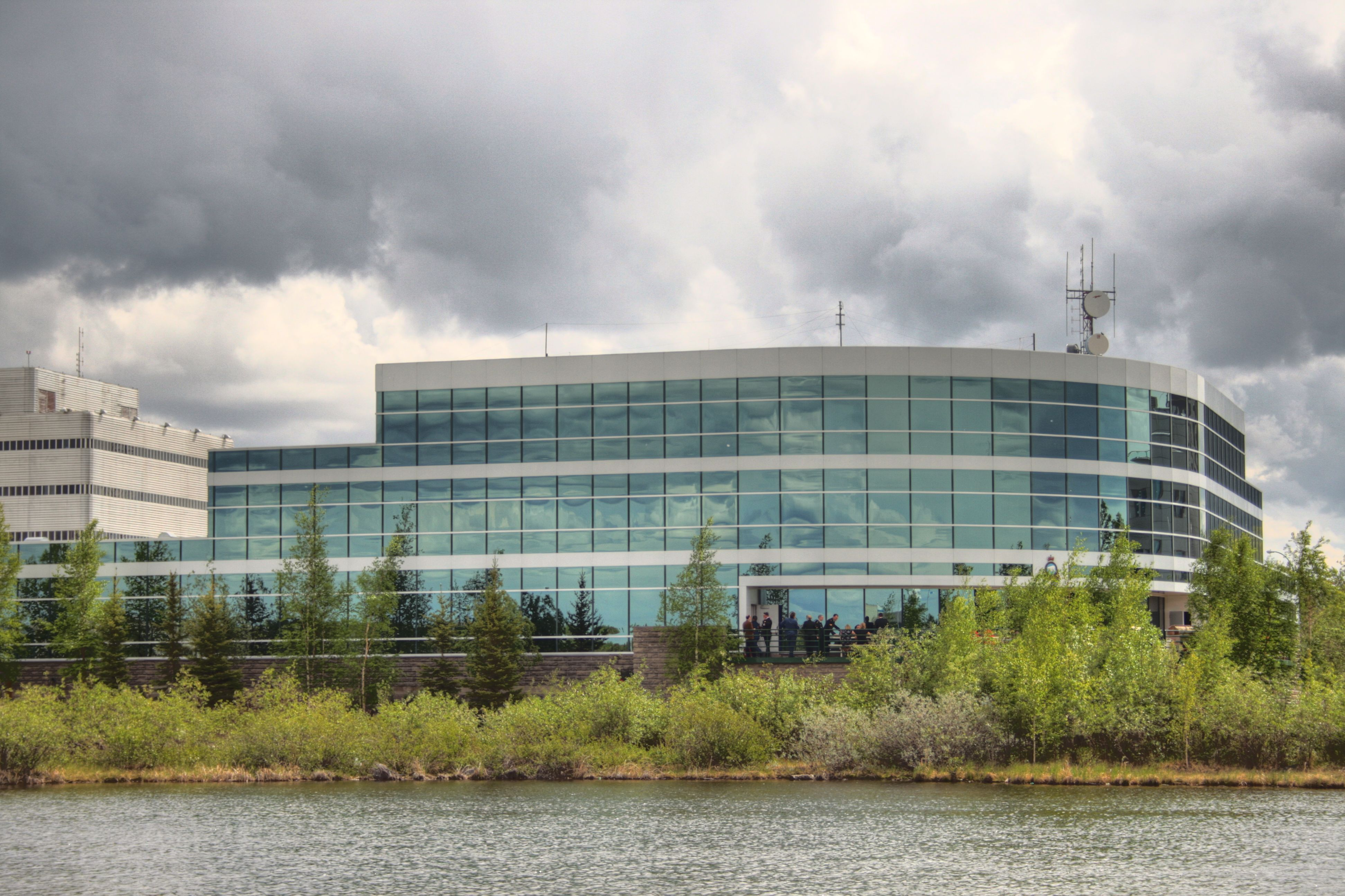 North face of Department of National Defense building, Yellowknife, Northwest Territories, Canada.